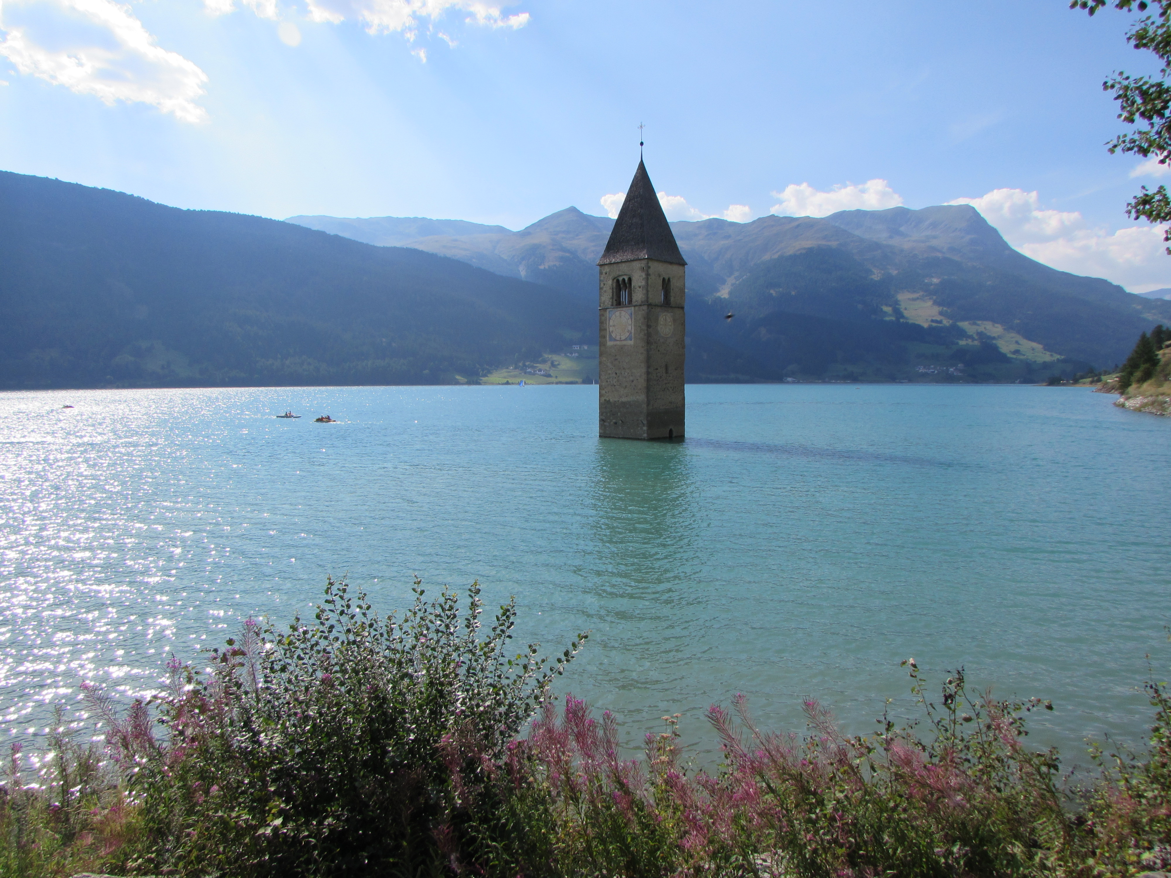 Lago di Resia - panorama